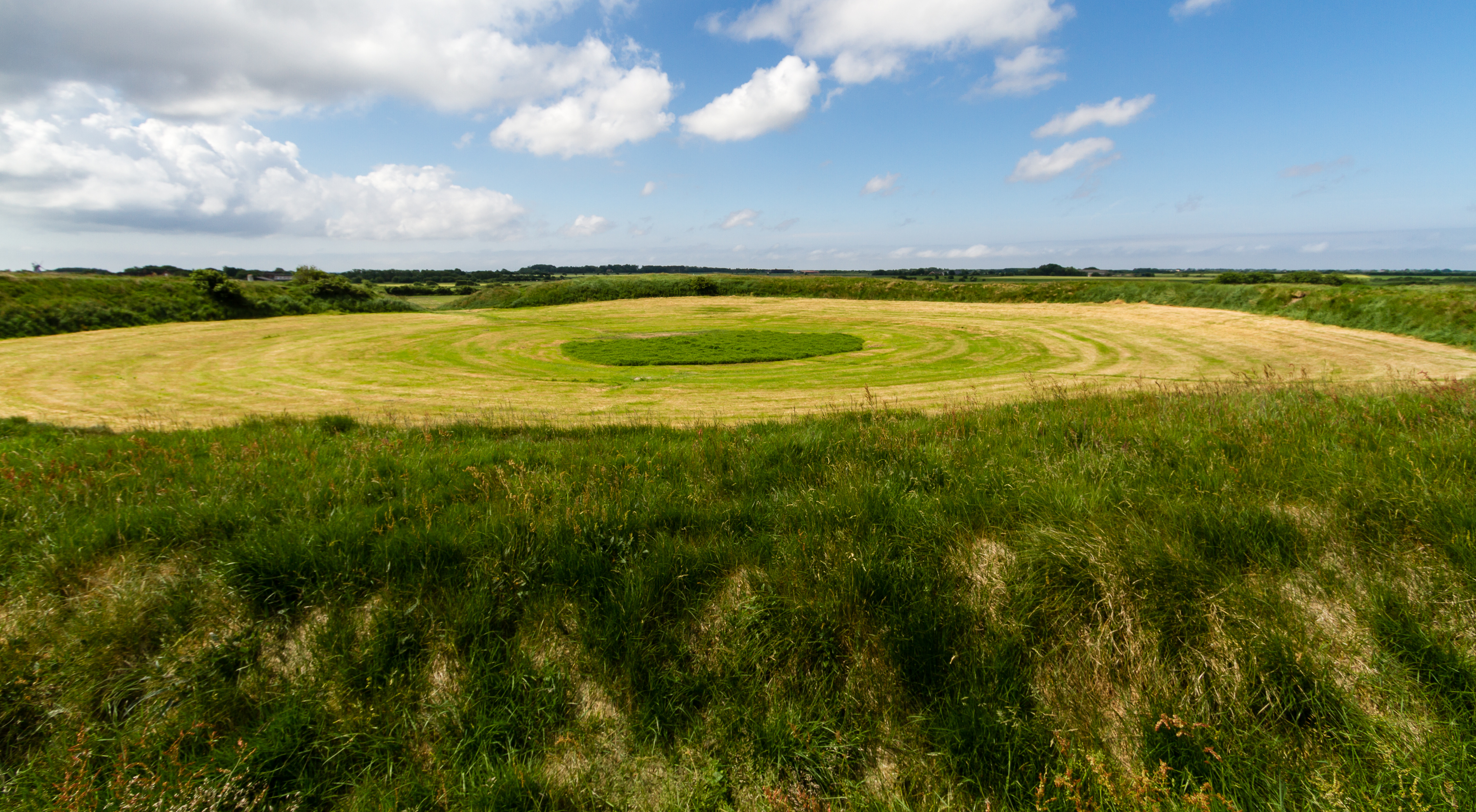 Archaeological monument (Viking Age): Lembecksburg, ring wall.